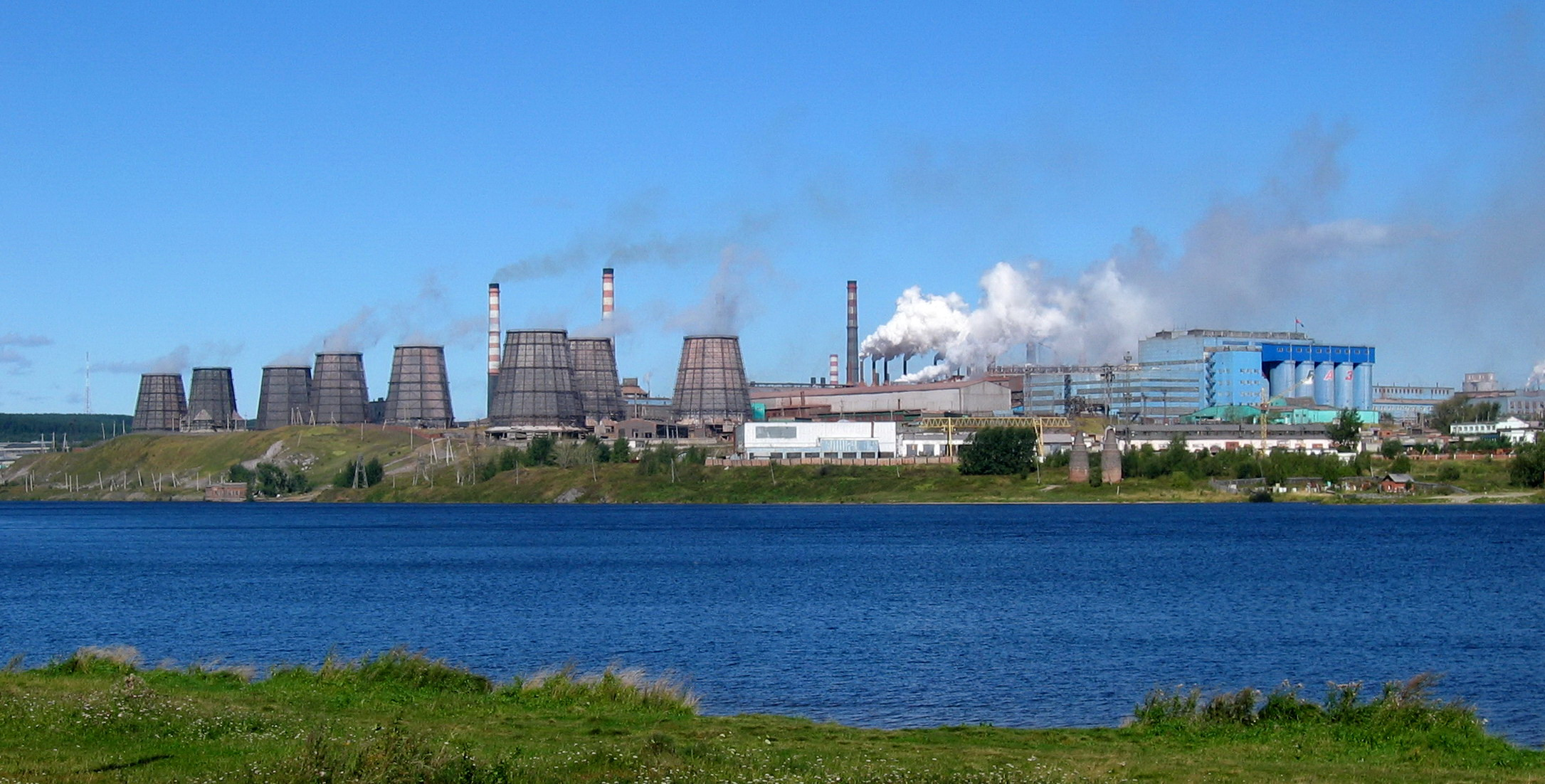 Bogoslovsky Aluminium Plant